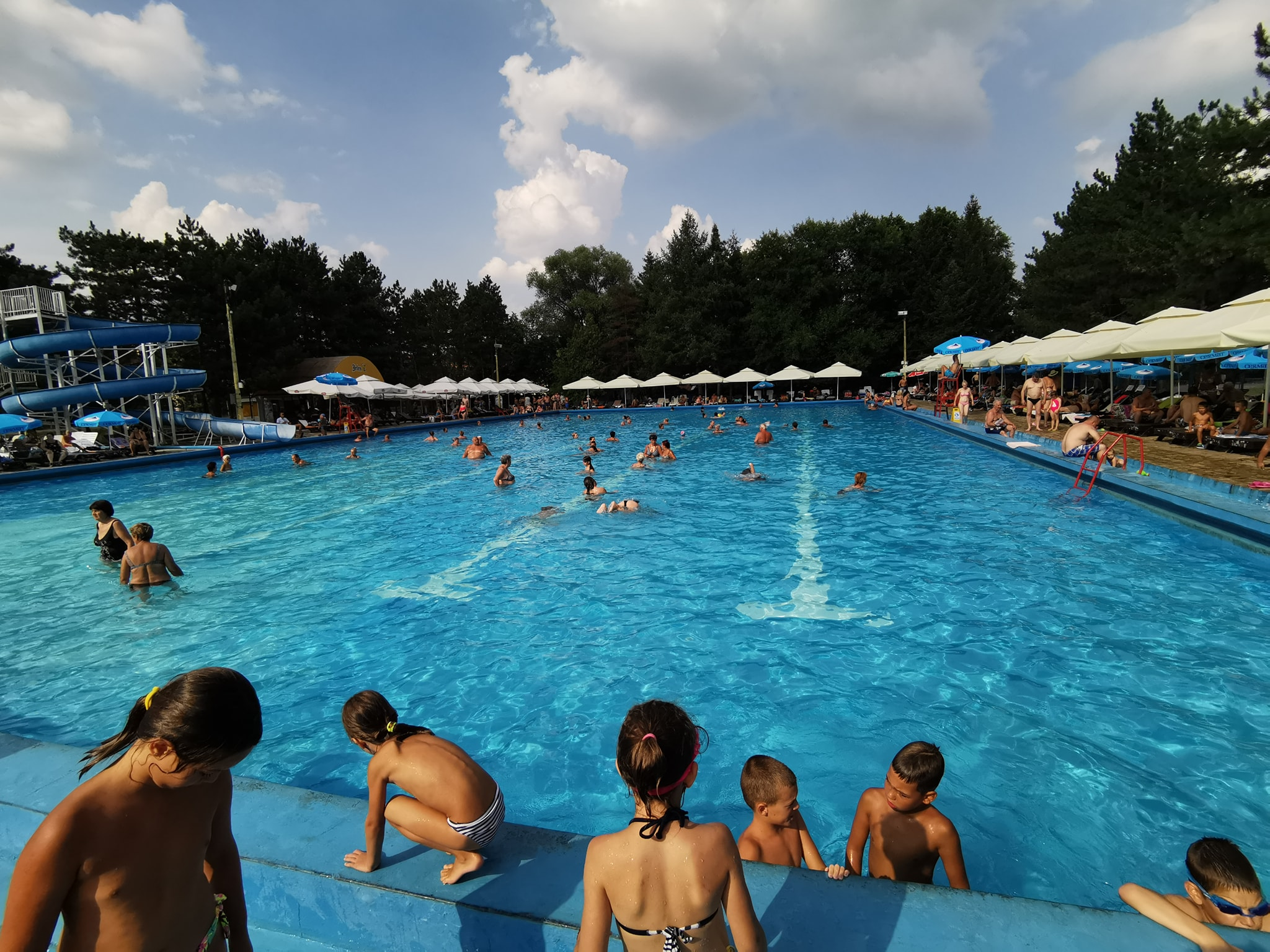 Swimming pools in Banja Vrujci are unique in Serbia because water is changing every night. Water in these swimming pools has healing properties and can be very helpful to people with some kind of deseases.